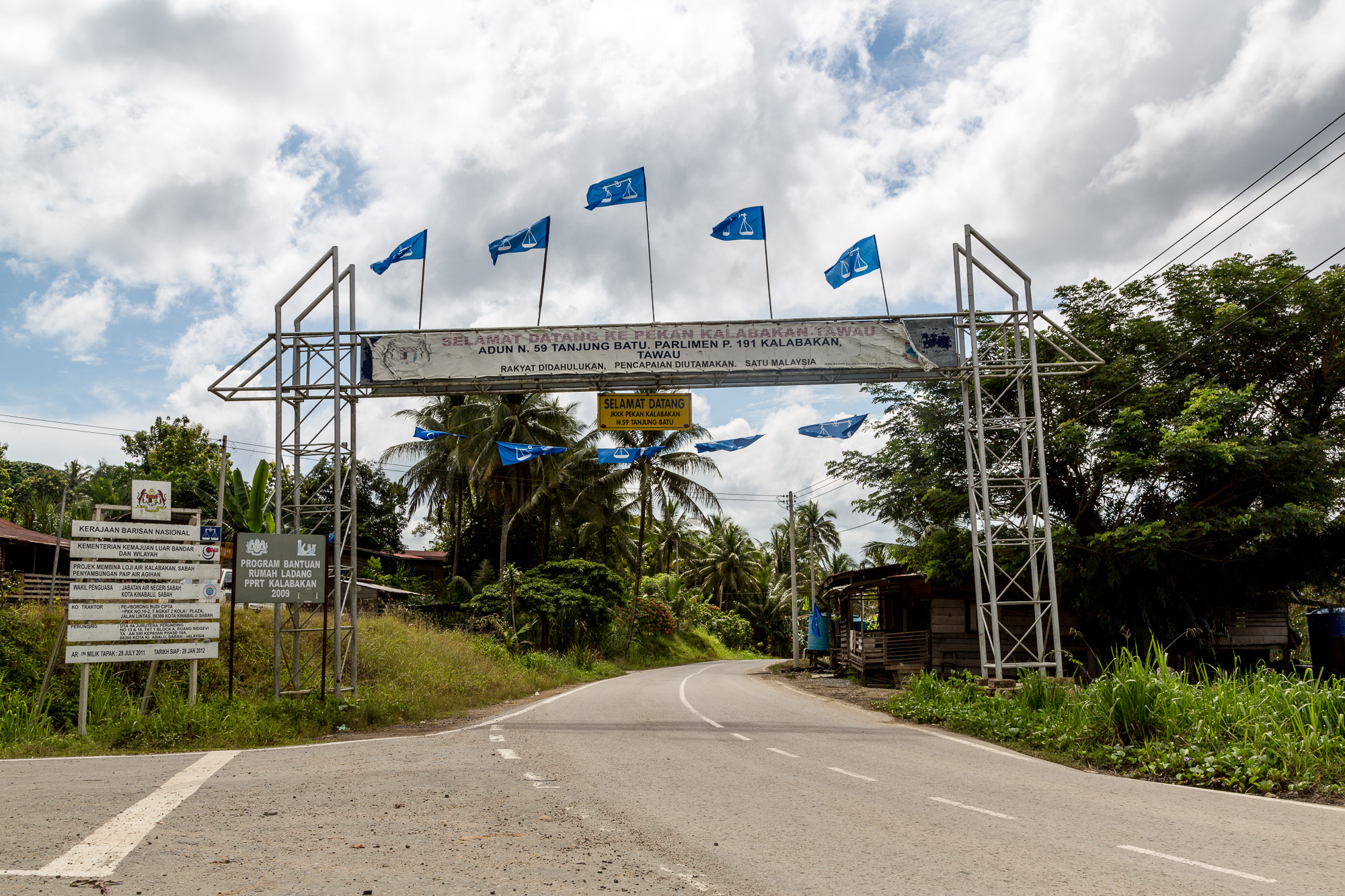 Kalabakan, Sabah: Accessroad to Pekan Kalabakan